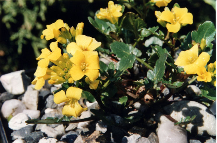 Сурепка каменная, цветущее растение